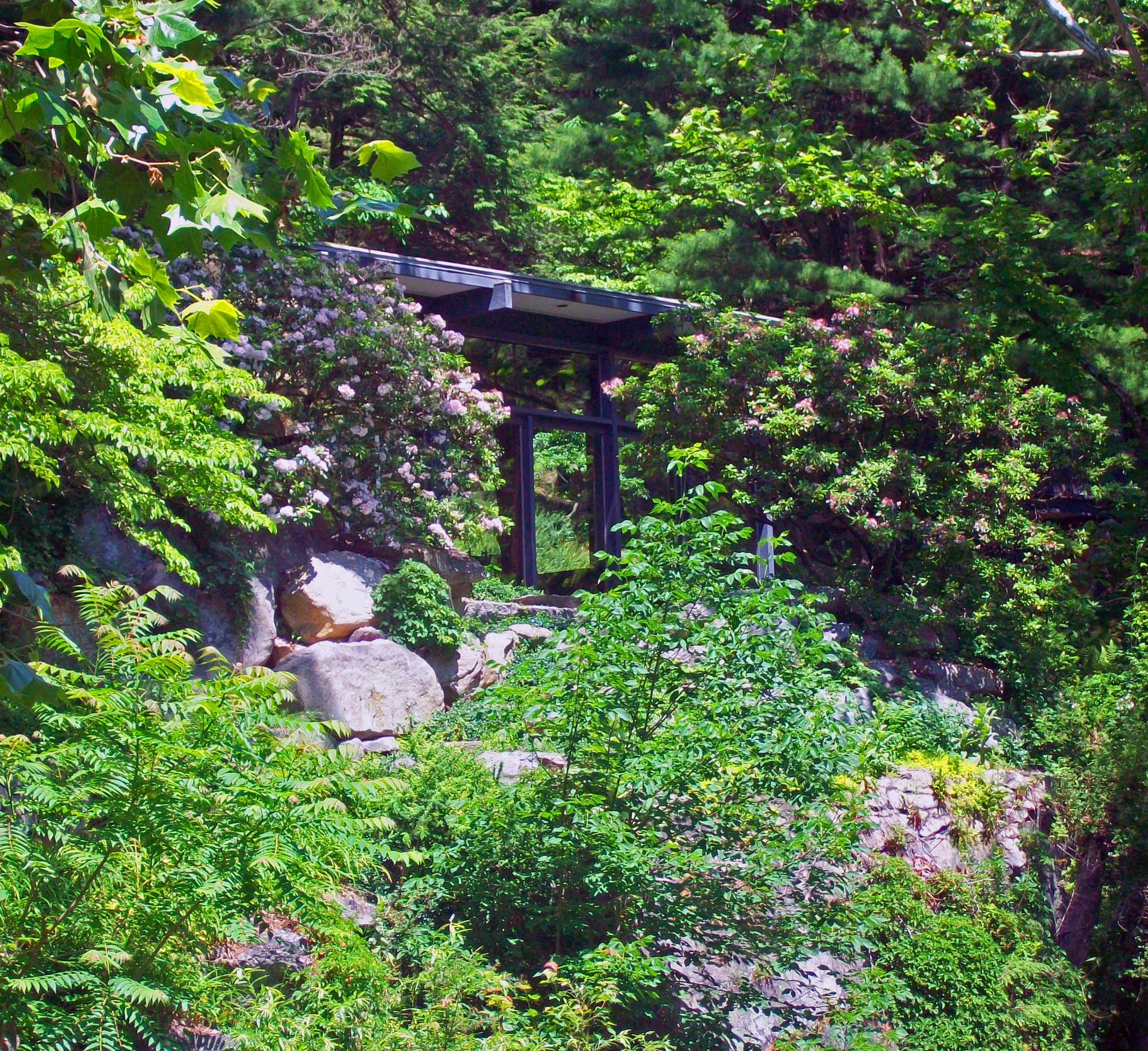 Dragon Rock, self-designed home of Russel Wright at Manitoga in Garrison, NY, USA, a National Historic Landmark